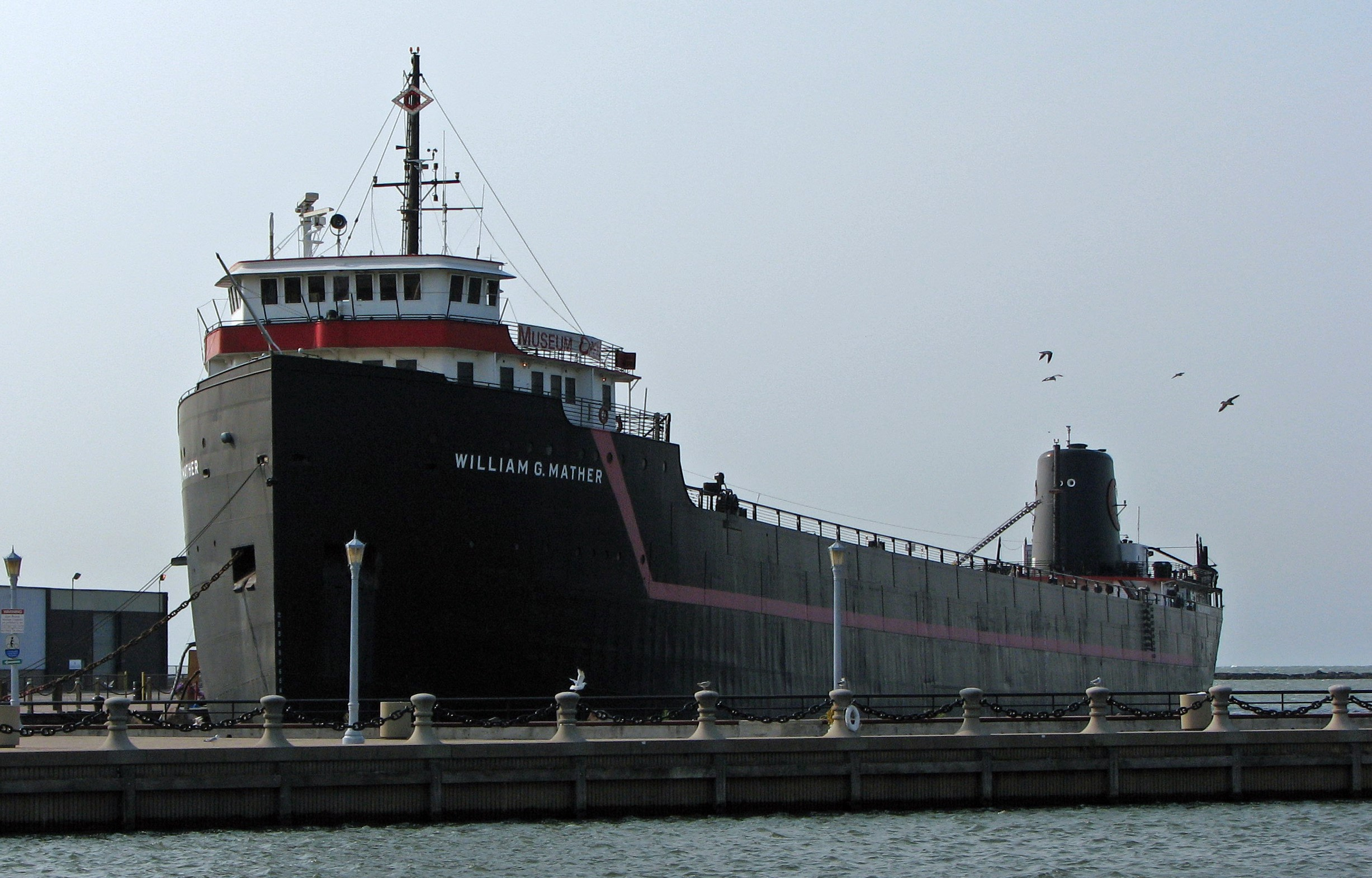 'Steamship William G. Mather' Dock 32, just west of the East Ninth Street Pier. Cleveland OH.